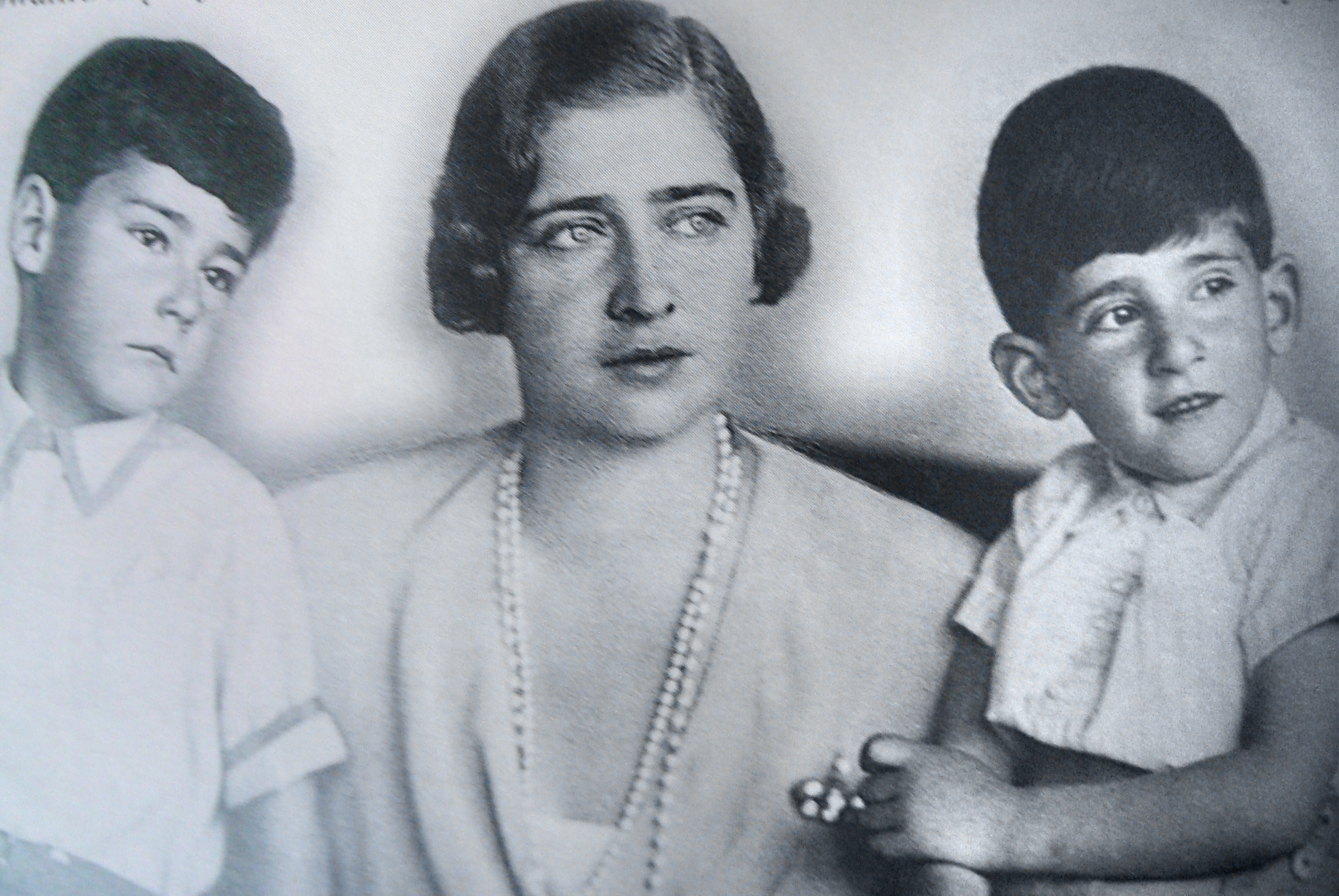 Maria Hohenzollern-Sigmaringen, Princess of Romania, Queen of Yugoslavia, with her sons.